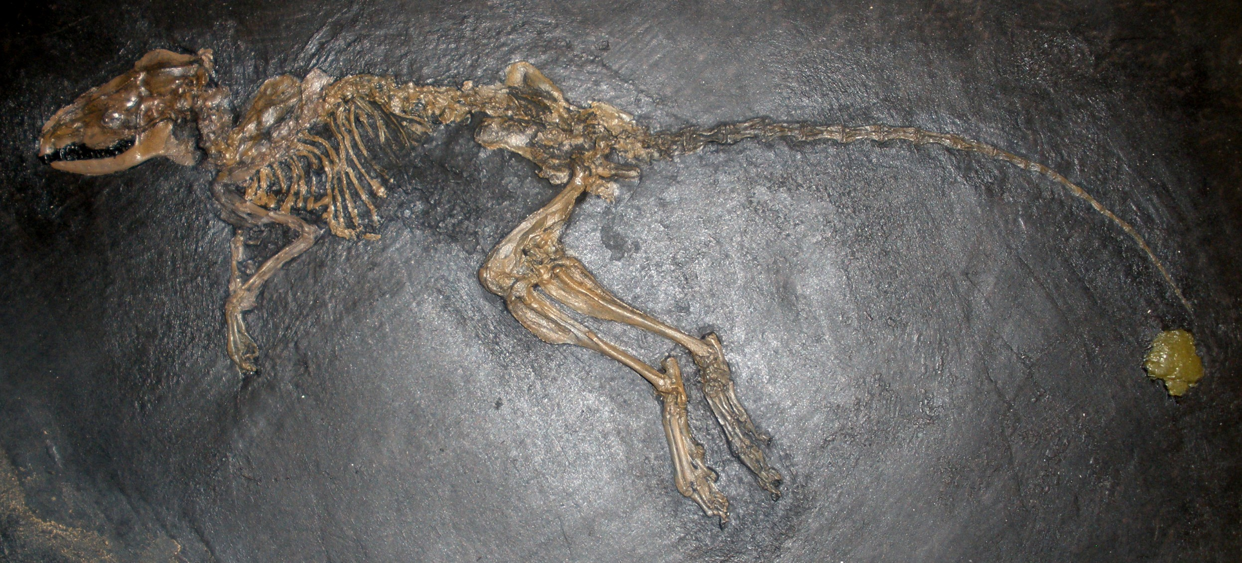 Fossil of Macrocranion tupaiodon, an extinct insectivoran Took the photo at Museo di Storia Naturale, Milano